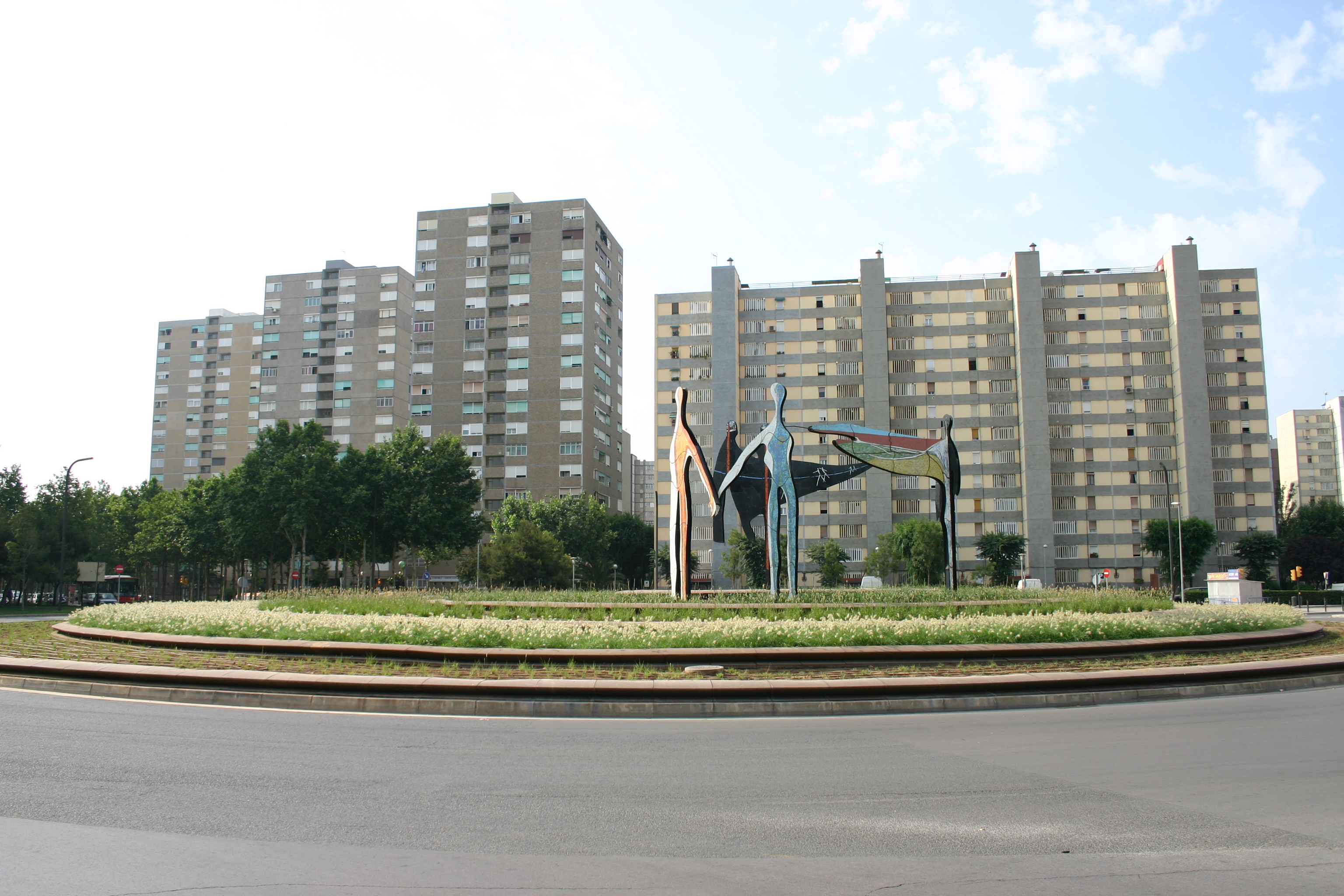 Roundabout